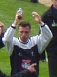 Geoff Horsfield, then playing for Birmingham City F.C., acknowledges the supporters after the last game of the 2002–03 Premier League season at home to West Ham United